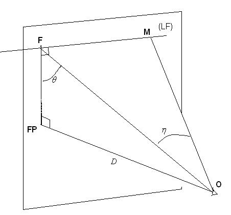 représentation de la ligne de fuiite d'un plan